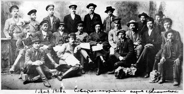 Bolshevist leaders of Alapaevsk in 1918